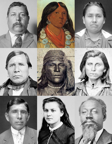 A Muscogee collage from various public domain sources.